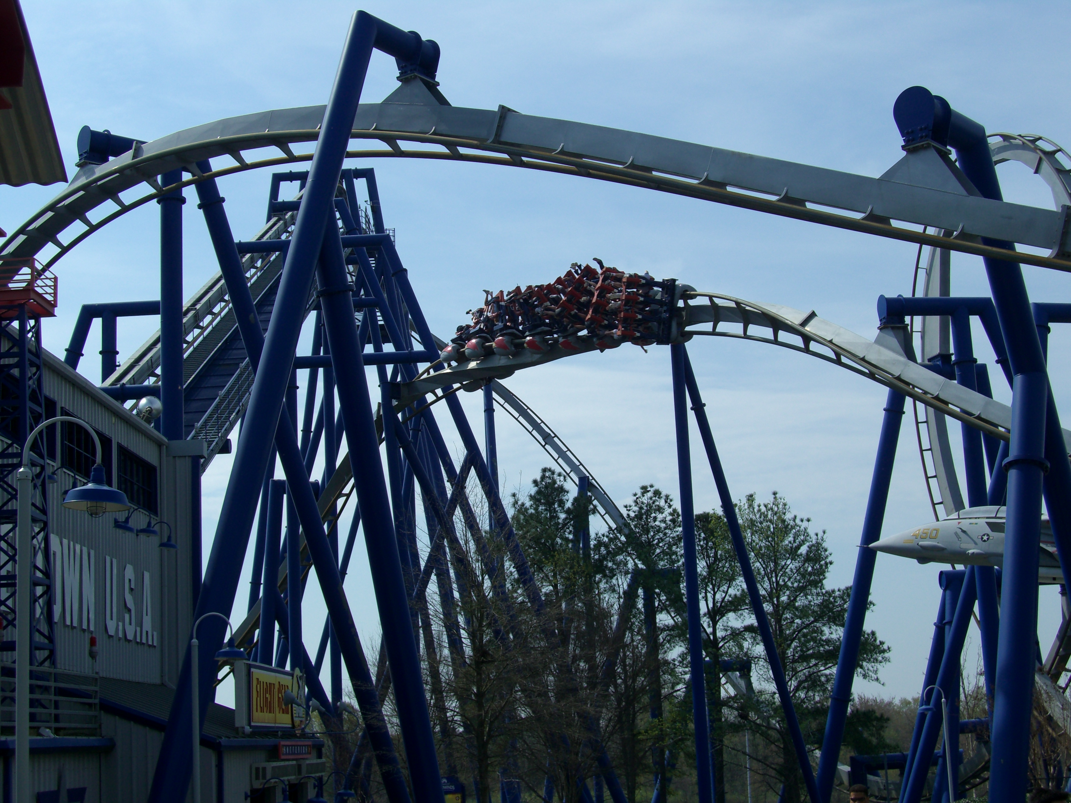 Afterburn zero-g roll at Carowinds.